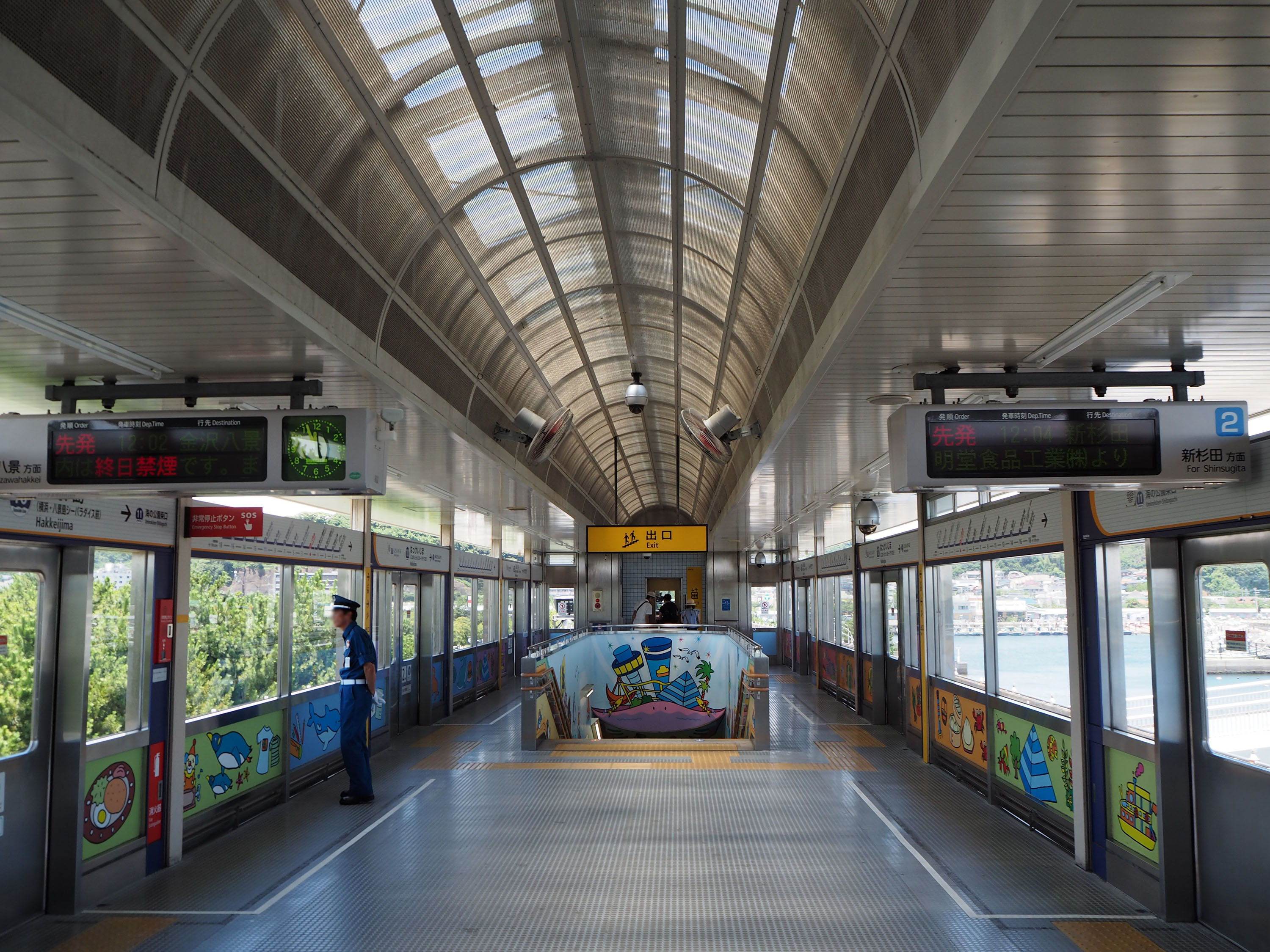 Platforms of Hakkeijima Station